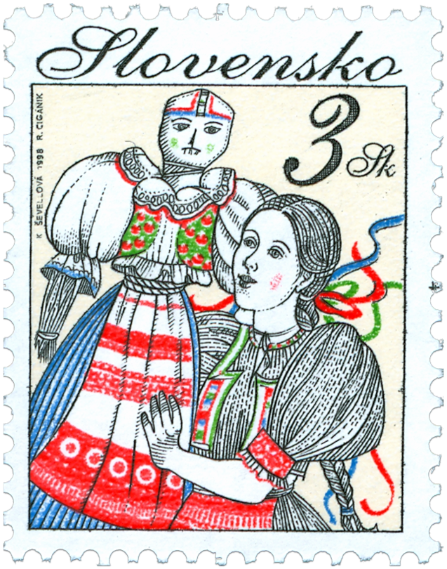 Stamp "Vynášanie Moreny" 1998.